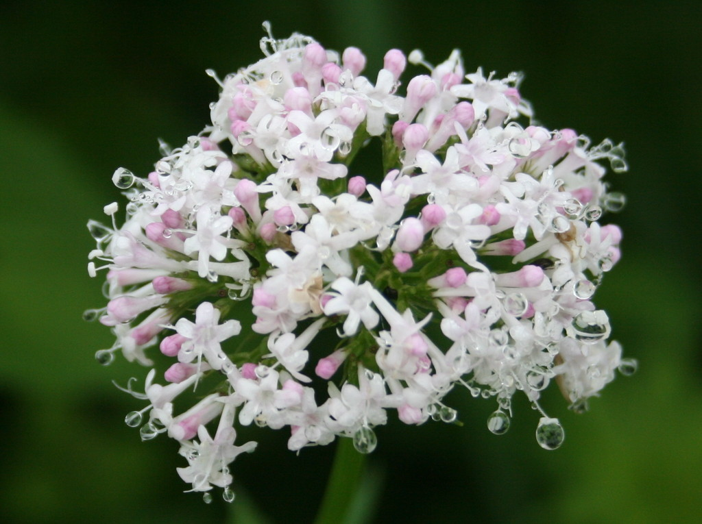 Valeriana_fauriei_Kanokosou_in_Mount Ibuki